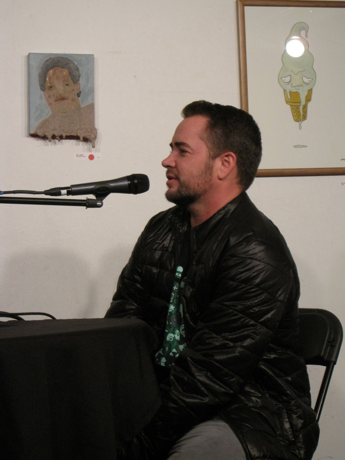 Jackie Kashian's monthly comedy show, held in Hollywood at the Nerdmelt Theatre, in the back of Meltdown Comics on Sunset Boulevard. For this particular evening, the special guest is Margaret Cho, along with her good friend and fellow comic, Ian Harvie. Although I have seen Jackie a number of times previously, this is the first time I am attending her monthly show.